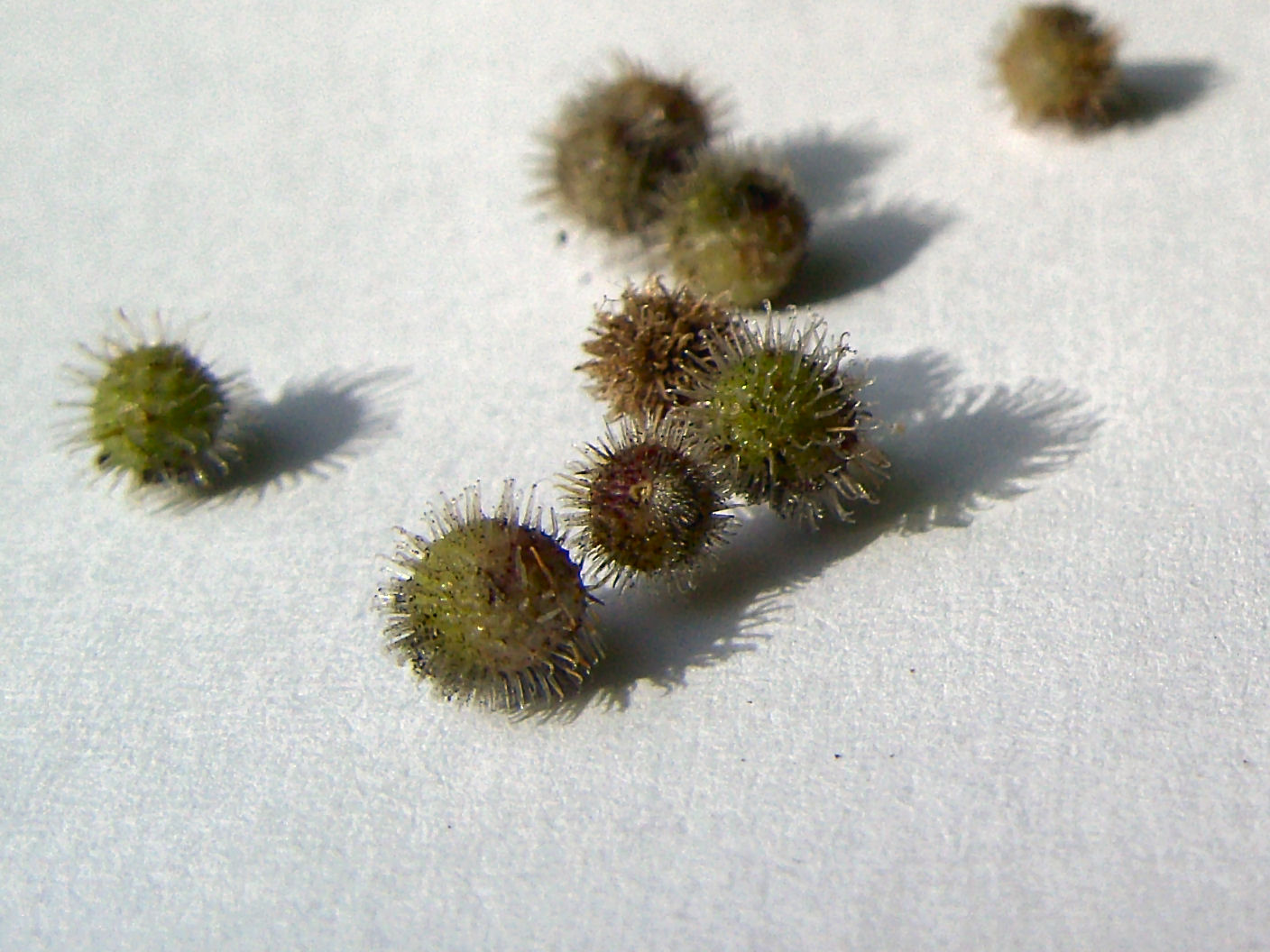 Macro shot of woodruff fruits in different stages of maturity and sizes ranging from 2 to 4 mm.